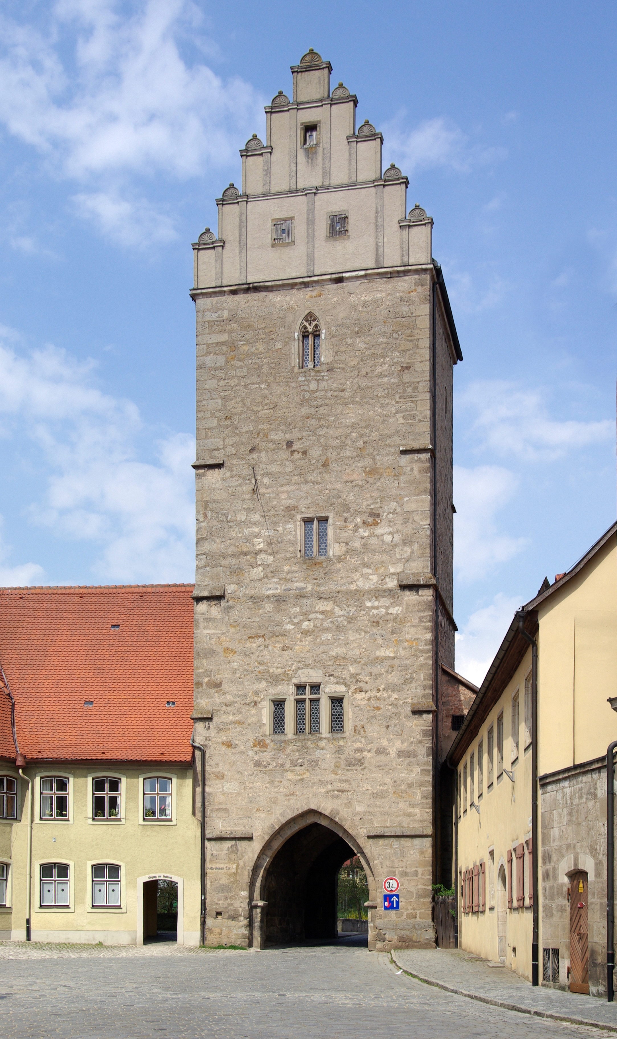 Germany, Dinkelsbühl, Rothenburg Gate